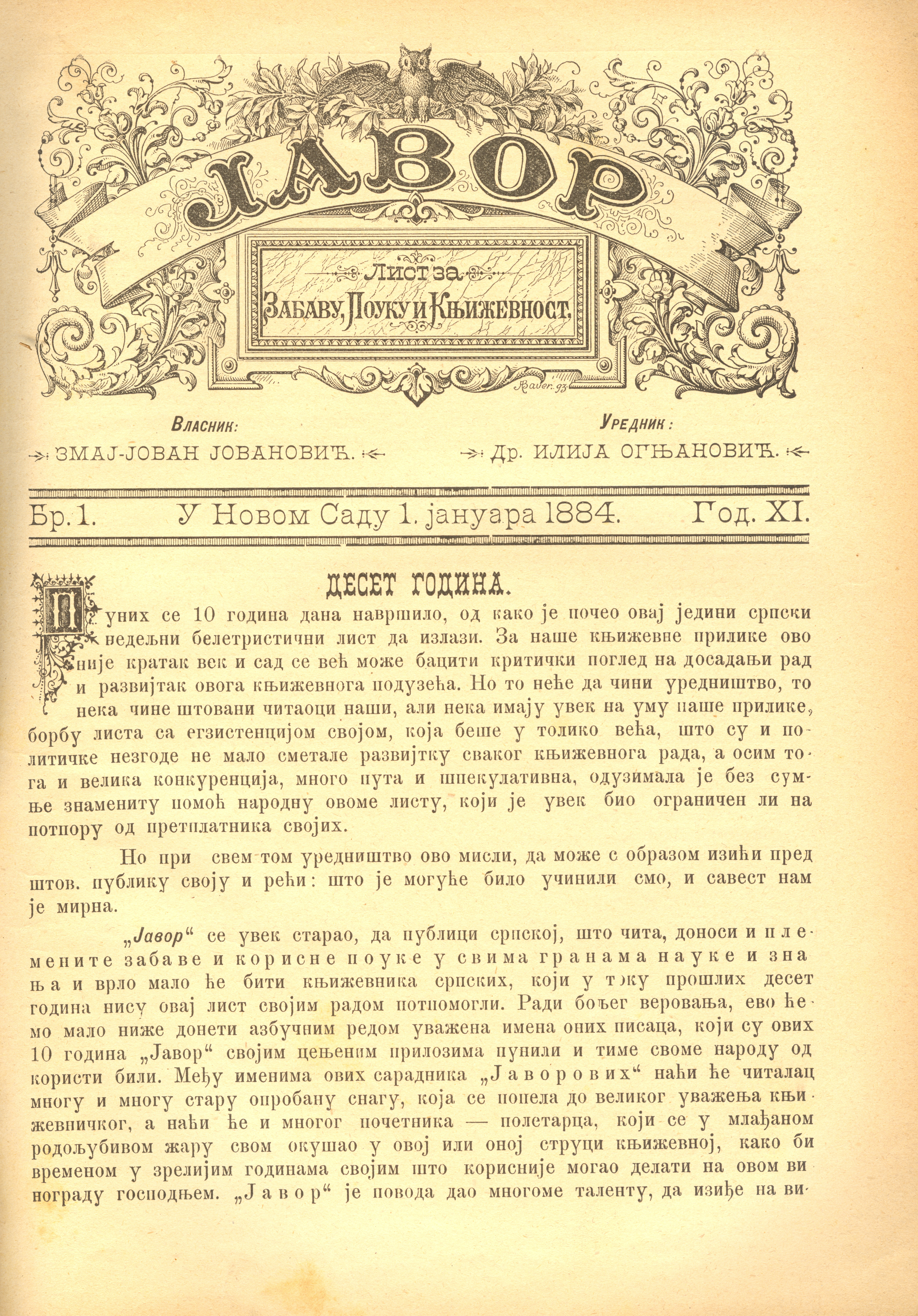 Front page of magazine Javor from 1 January 1884. Srpski (latinica): Naslovna strana časopisa Javor od 1. januara 1884.